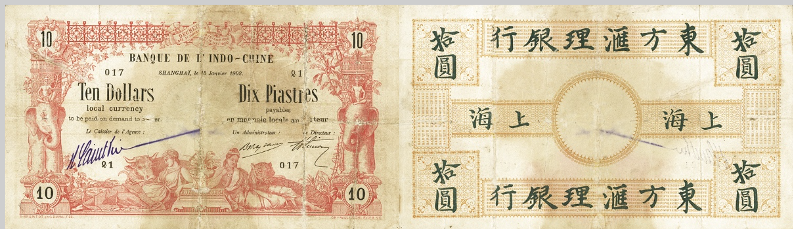 A banknote issued by the Banque de l'Indo-China for circulation in the territory of the Manchu Qing Dynasty.